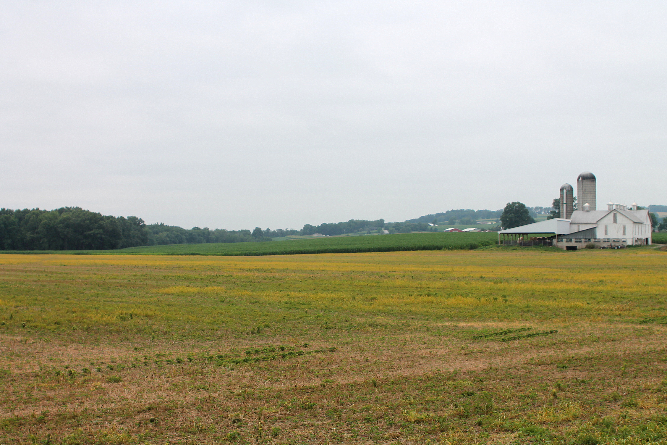 Field in western Derry Township, Montour County, Pennsylvania near Washingtonville. A farm is on the edge of the picture.